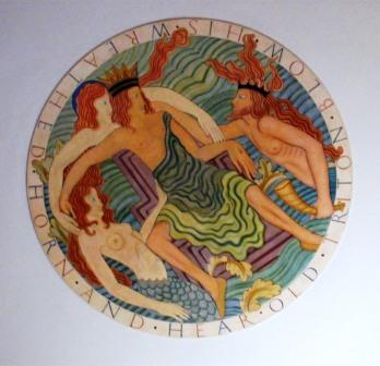 Eric Gill's work at the Midland Hotel in Morecambe